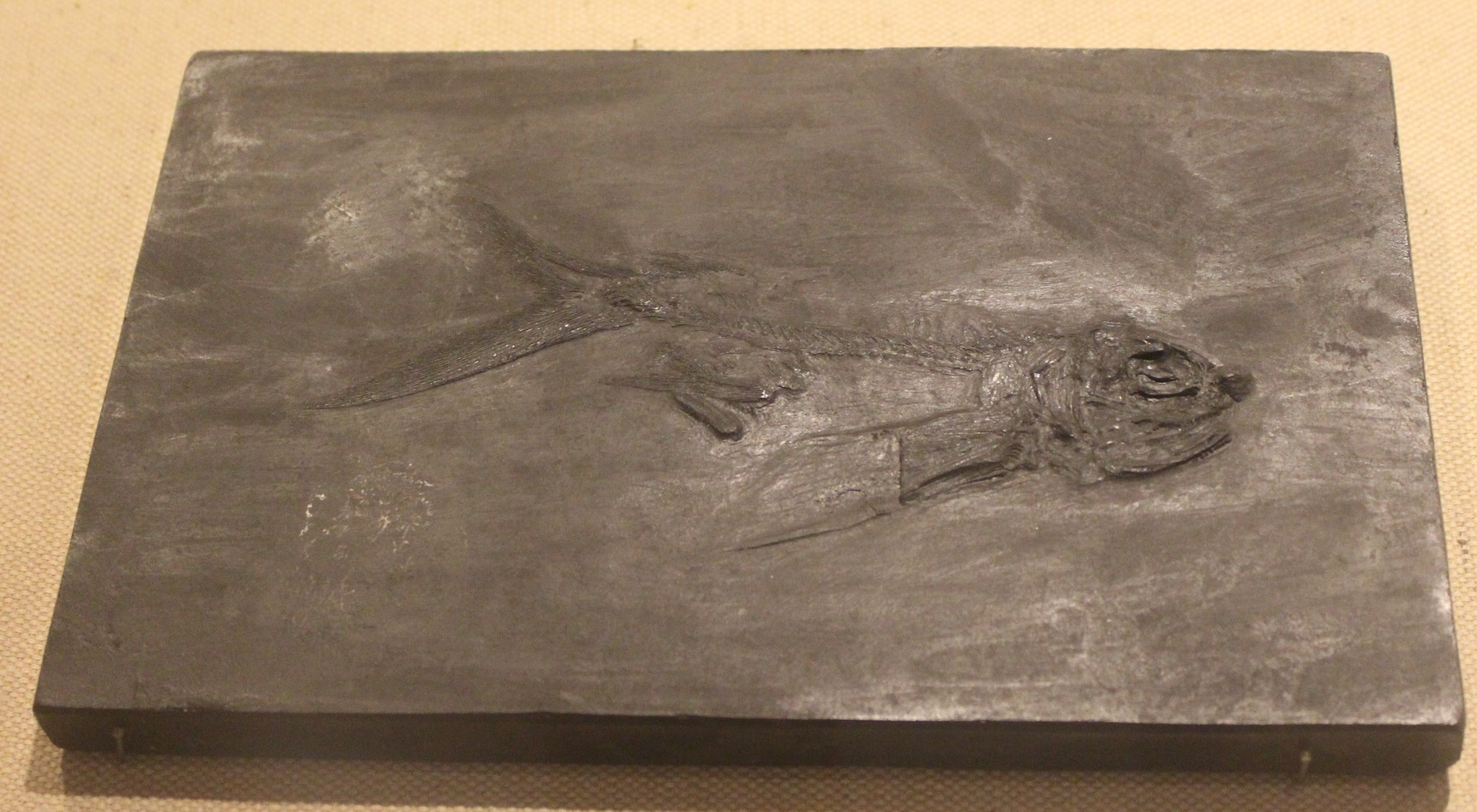 Paratype of Potanichthys xingyiensis on display at the Paleozoological Museum of China.